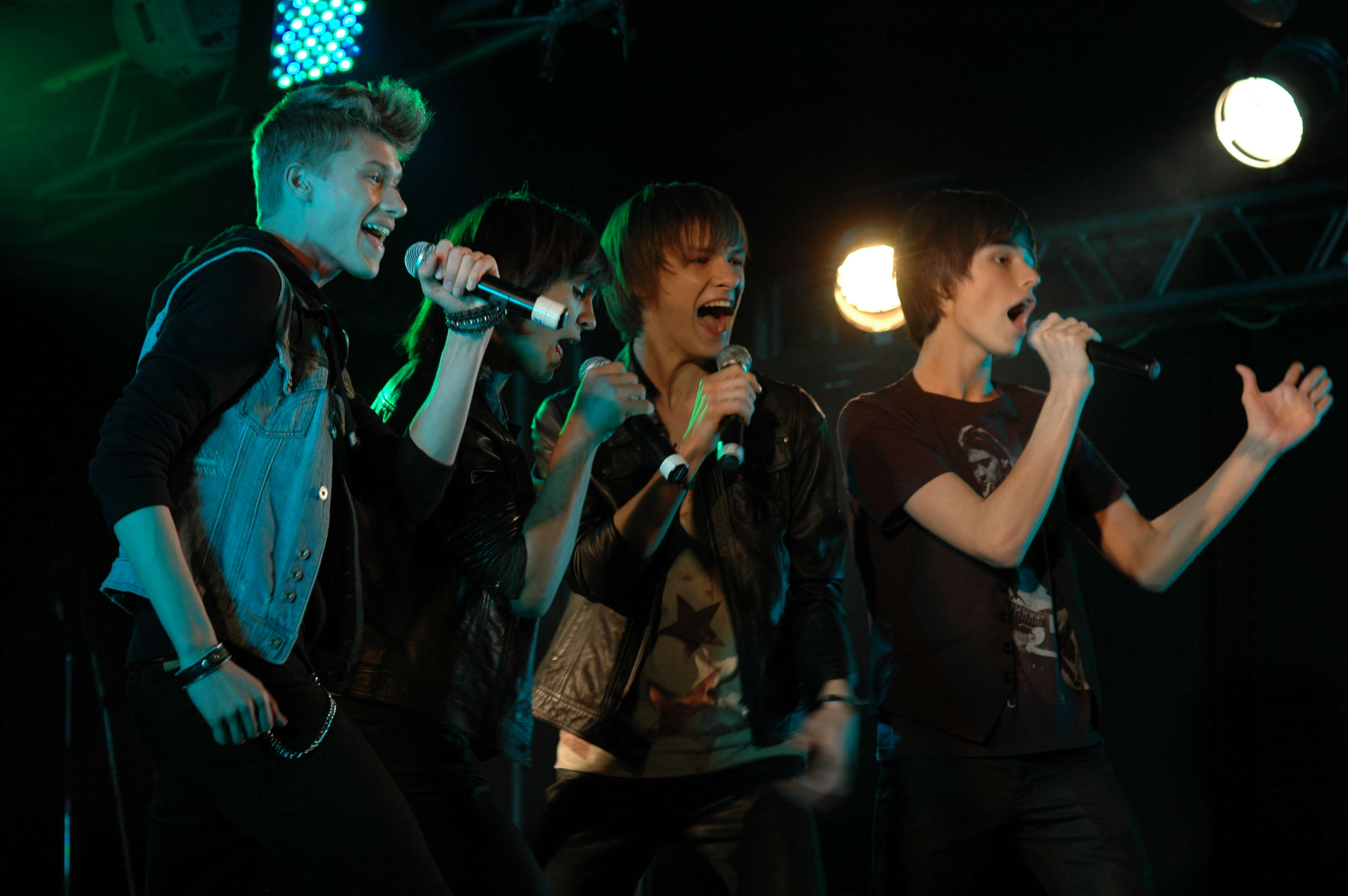 Band "Geroi" ("Heroes") at St-Petersburg, Russia (10.05.2012, "Zal Ozhidaniya" club)